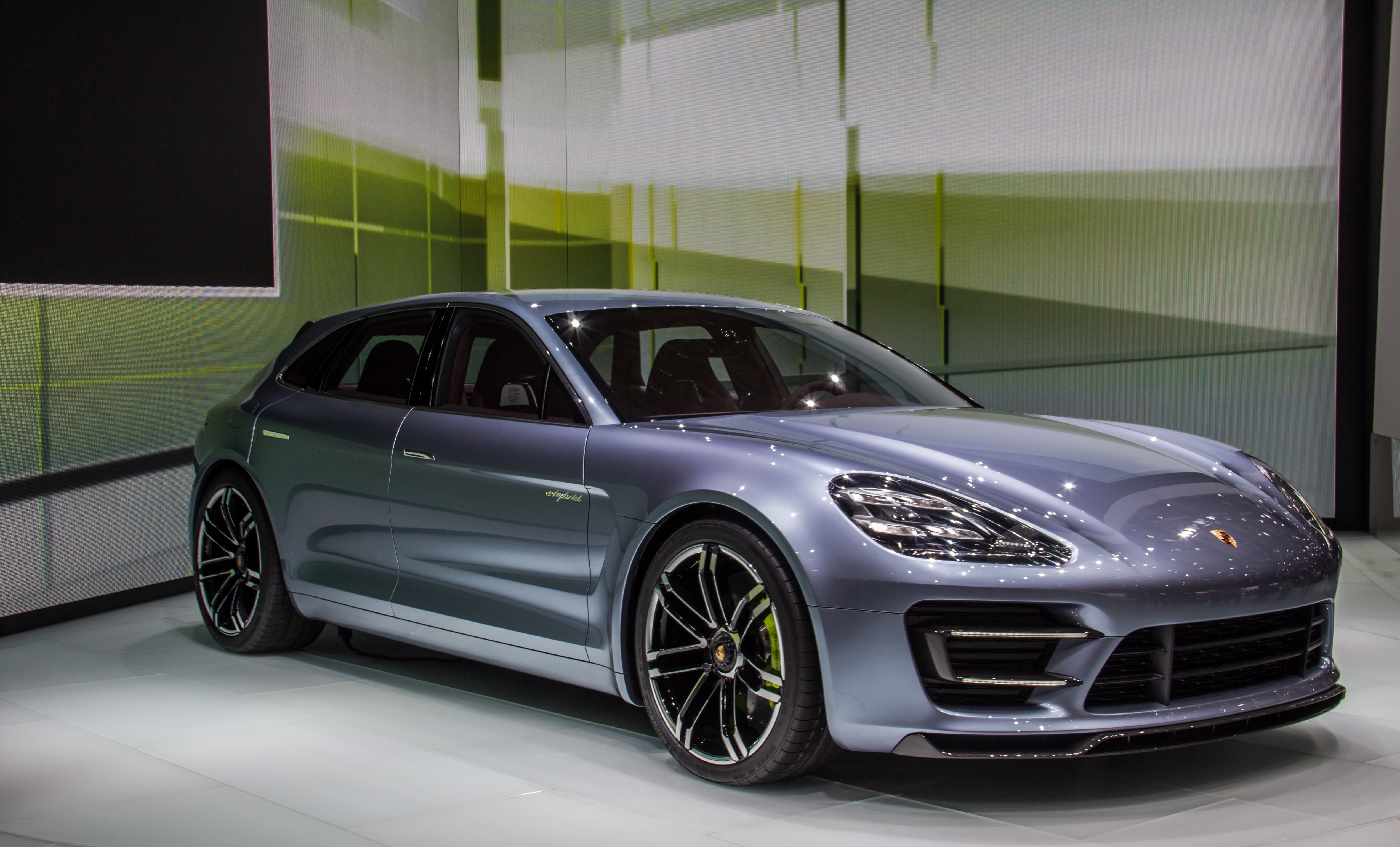 Porsche Panamera Sport Turismo e-hybrid at the Mondial de l’Automobile de Paris 2012.